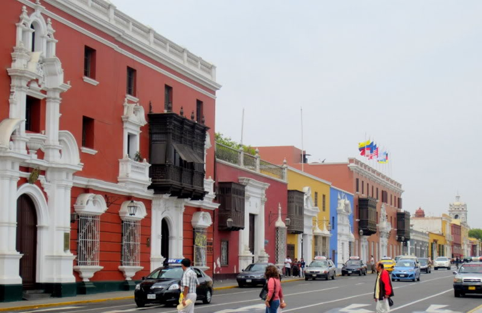 Jirón Independencia